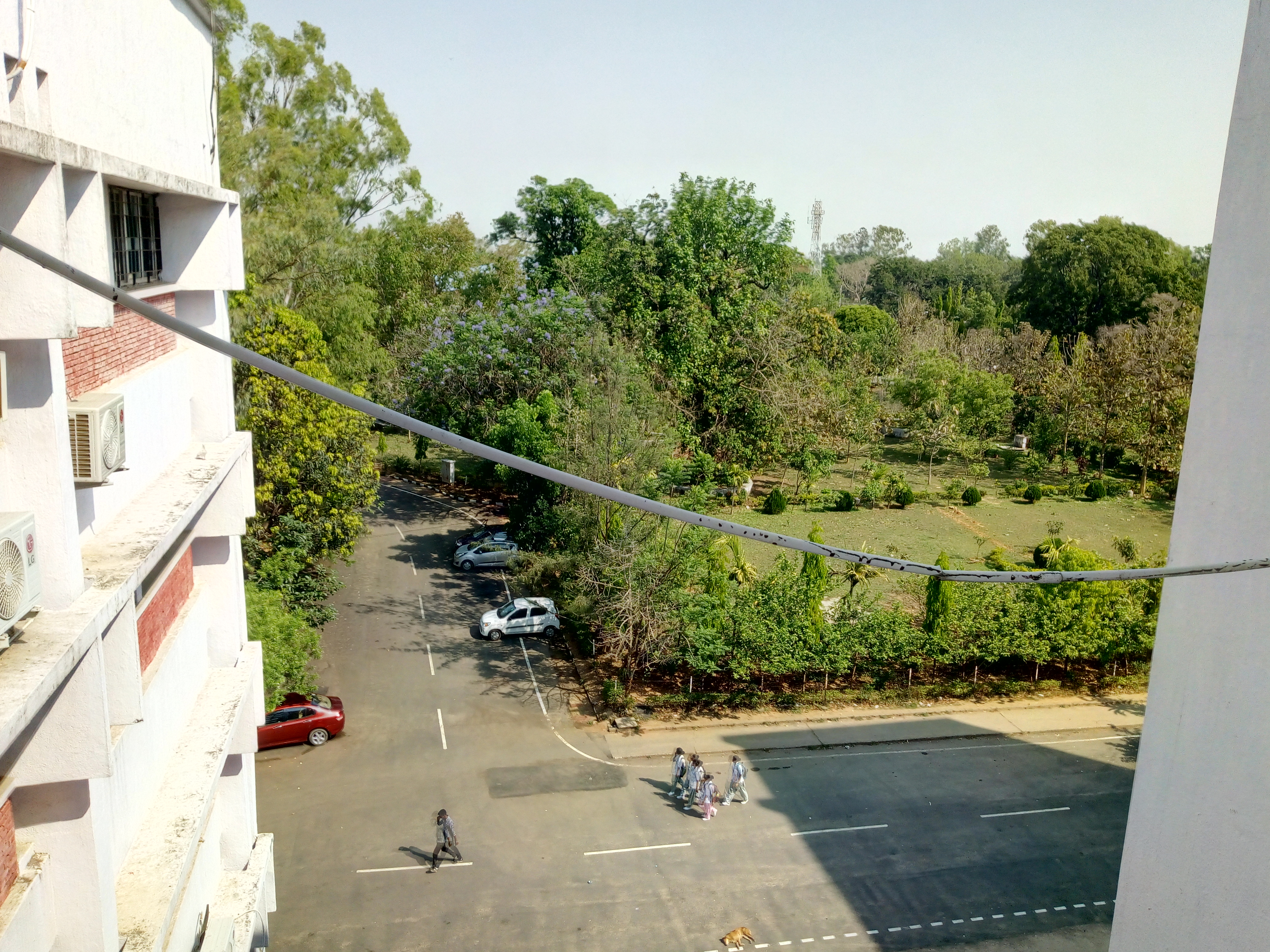 One of the many parks in RIMS campus.